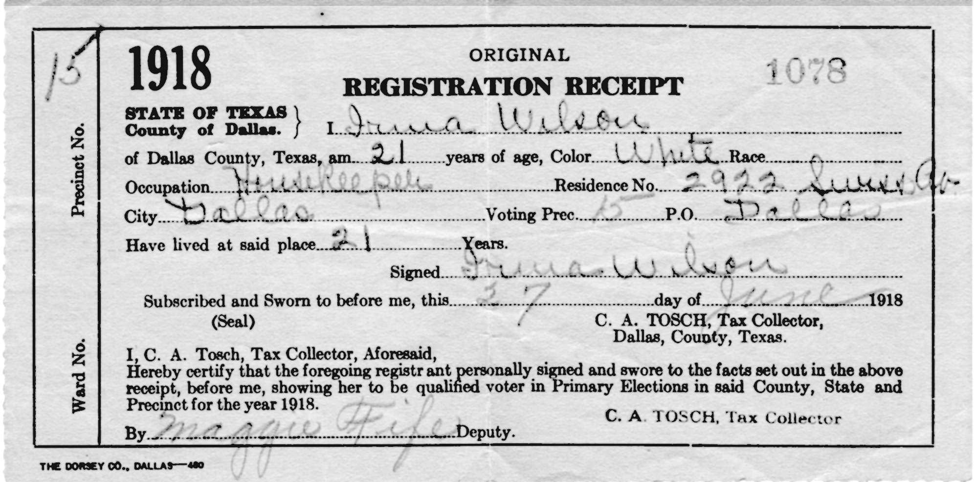 The Texas Primary suffrage bill allowed women the right to vote only in the Texas primaries, and was signed into law on March 26, 1918.